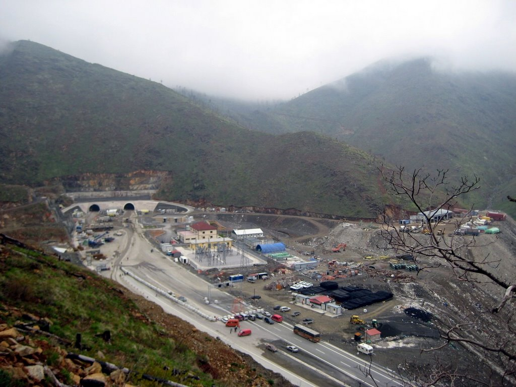 Photos from Arianit Dobroshi for Wikimedia Commons. Original Filename "arianit/Kalimash/image202.jpg"